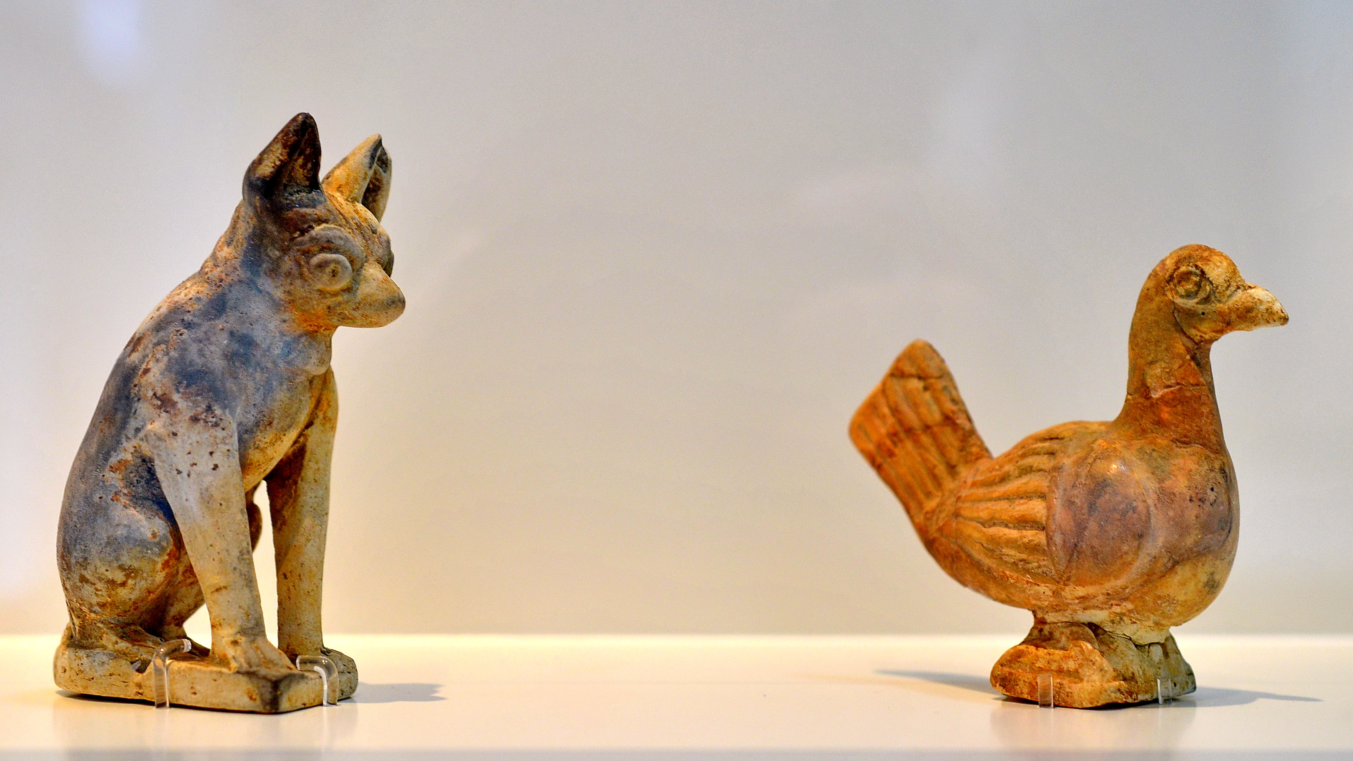 Collection of the Stadtmuseum) in Rapperswil (Switzerland)